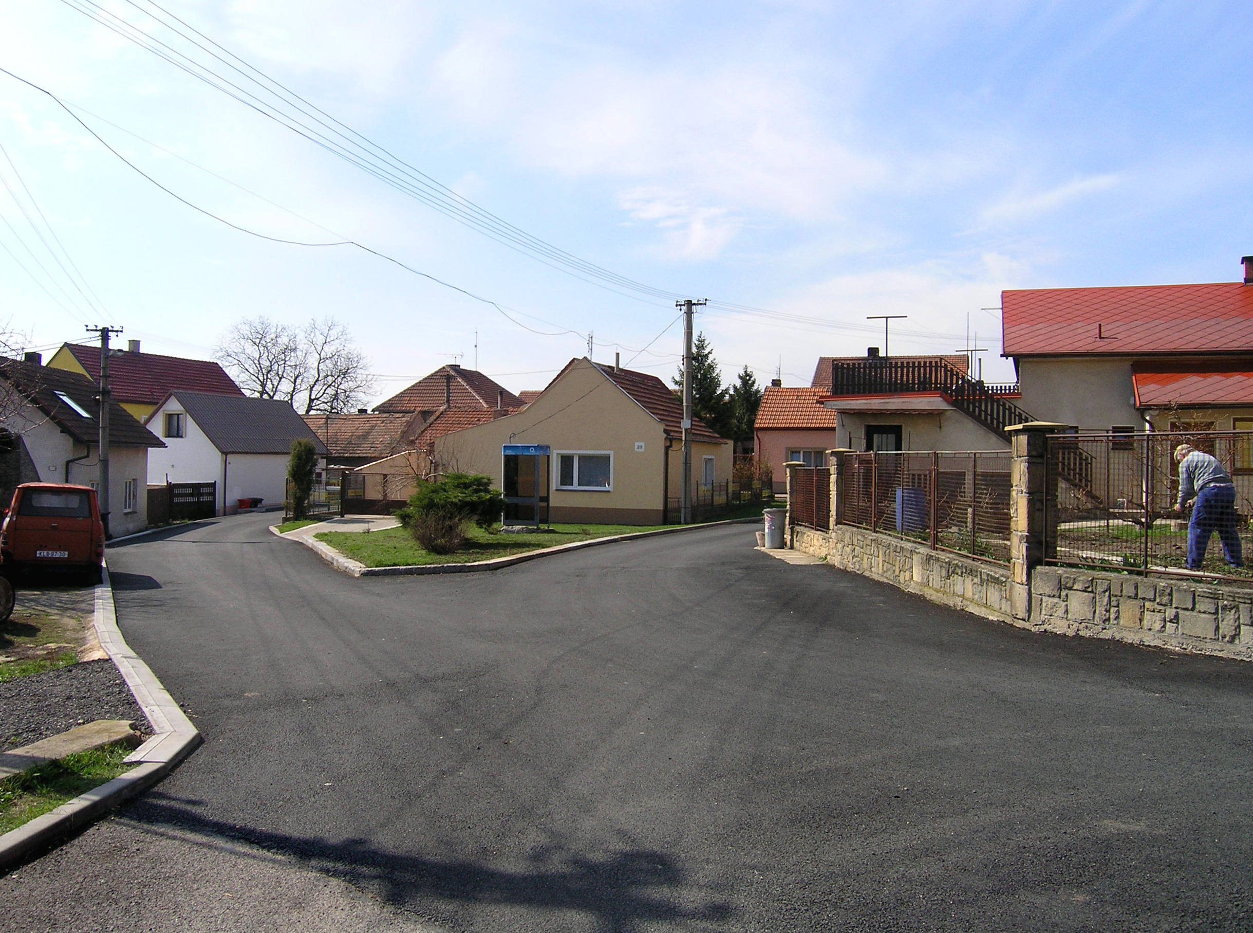 West part of Zlončice village, Czech Republic